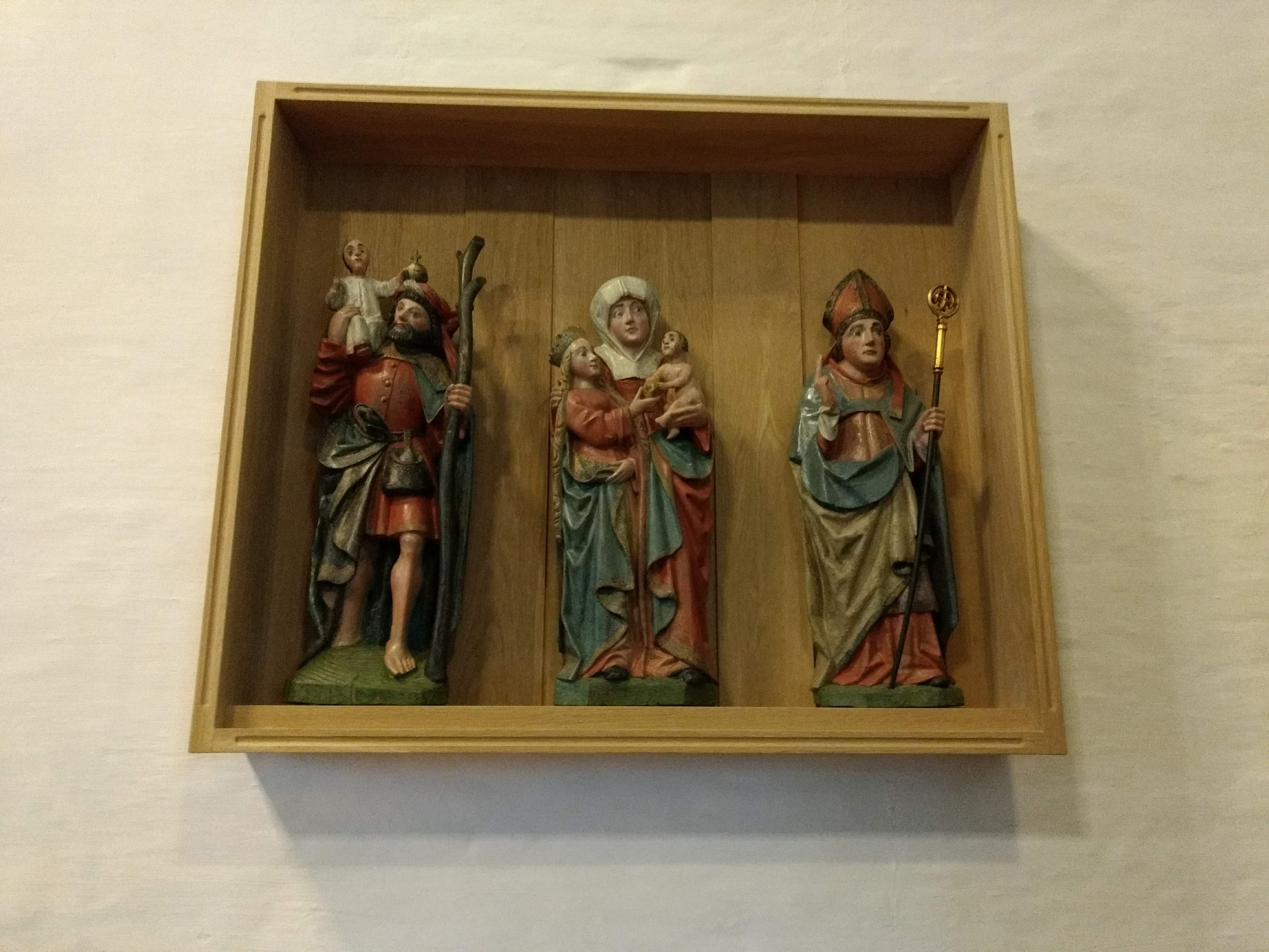 Statues in Bodin church, Bodø. Ca 1500 St. Christopher, St. Anna with St. Mary and Jesus, a bishop (likely St. Nicholas)